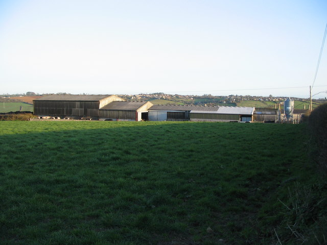 Lower Tunley Farm A view looking to the southeast from the kissing gate on the public footpath off Stoneage Lane, towards the buildings oF Lower Tunley Farm. Peasedown St. John can be seen on the horizon.